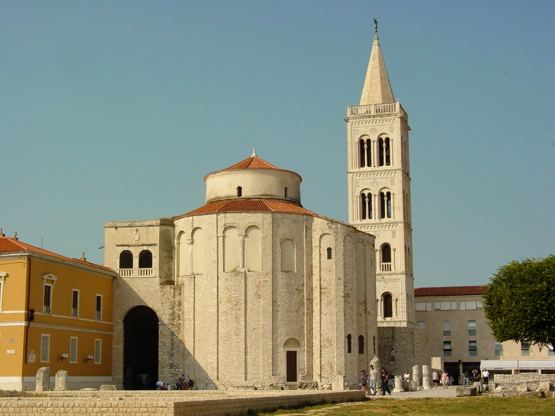 Church of St. Donat in late afternoon light, Zadar, Croatia. June 2004.